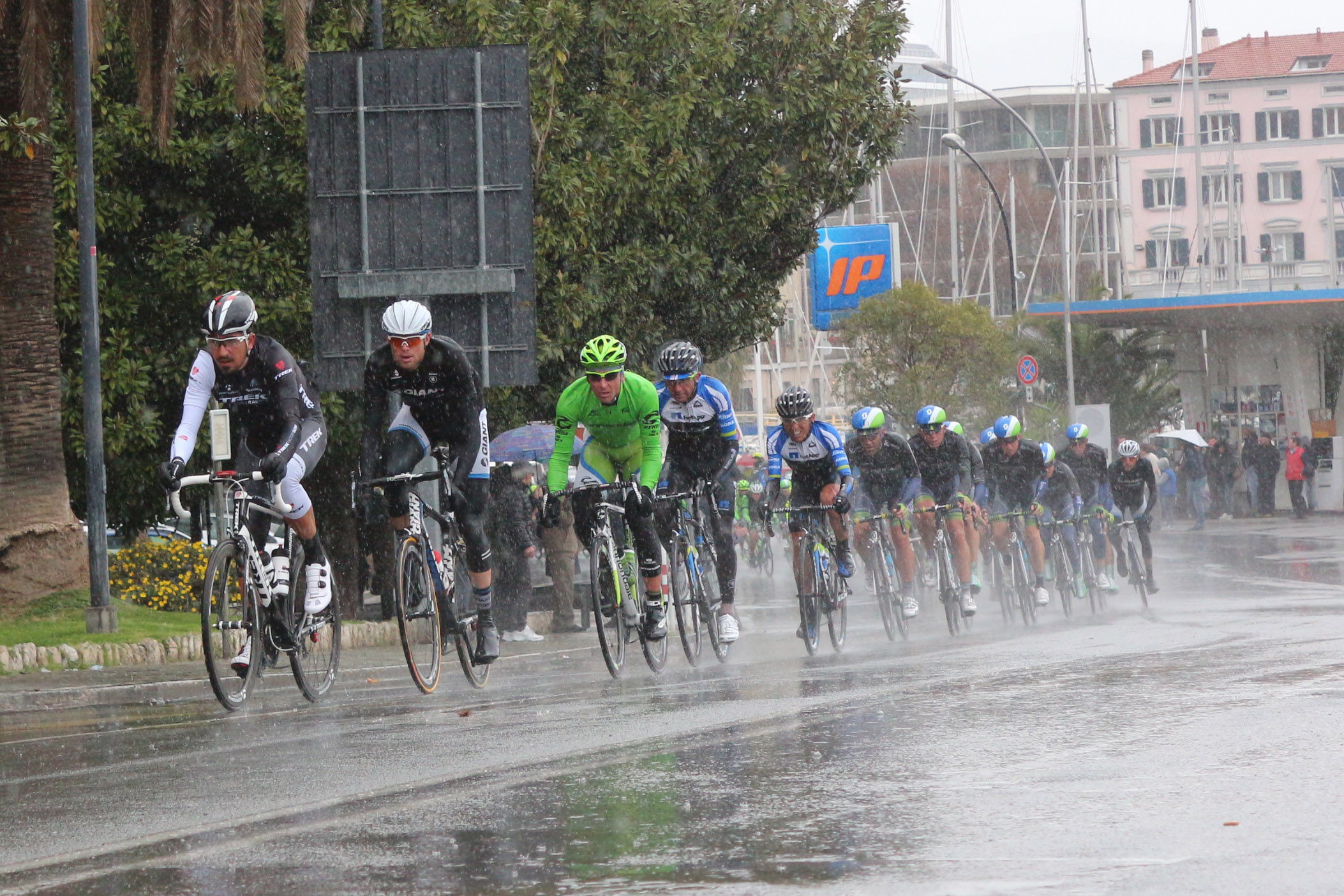 Peloton, Milan-Sanremo 2014, Savona